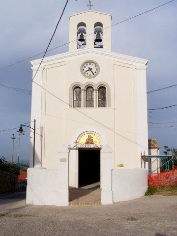 Santa Maria Assunta church in Villa Badessa